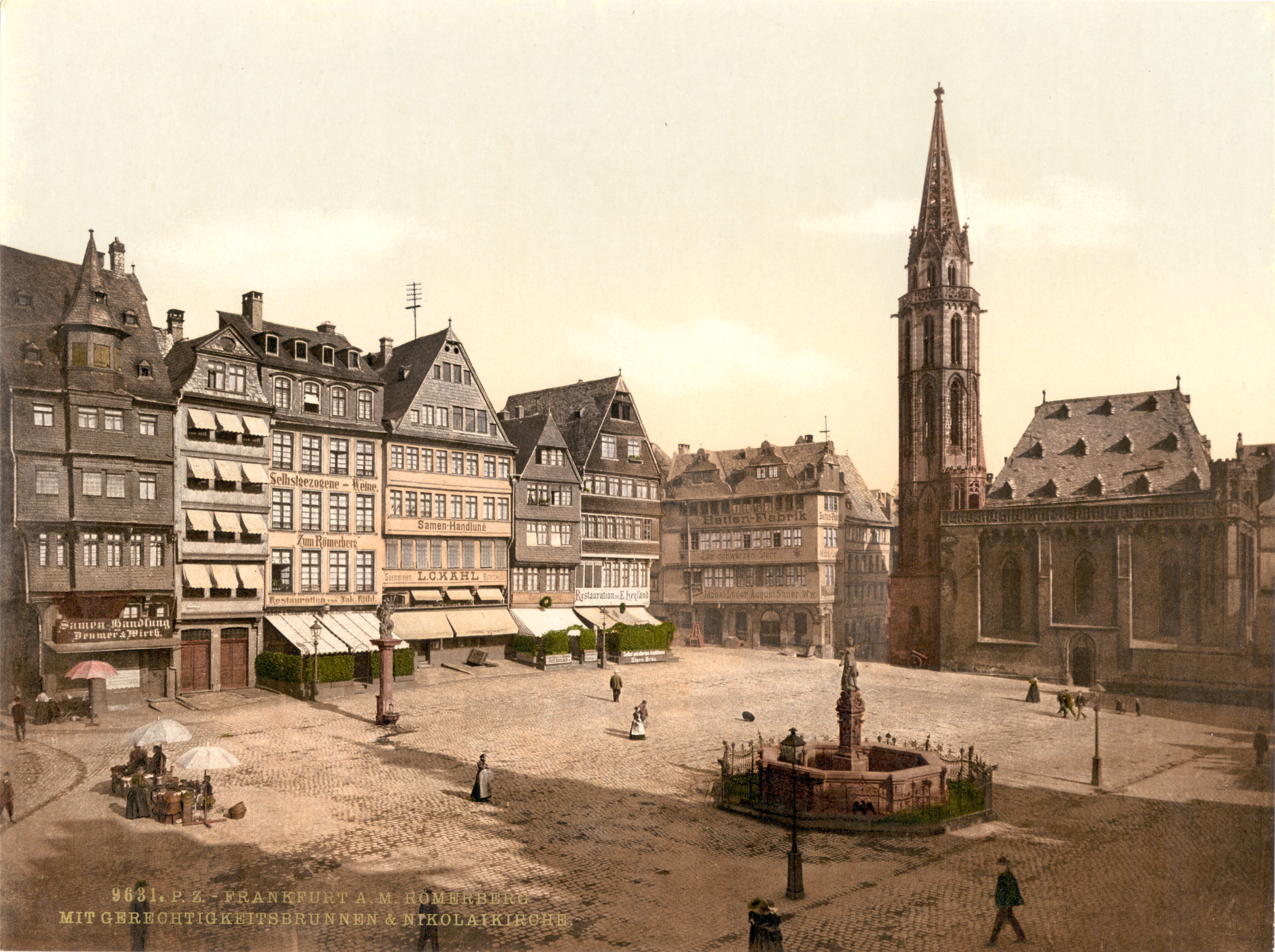 Frankfurt on the Main, Roemerberg, from left to right: Houses Grosser und Kleiner Engel (Large and small angel), Goldener Greif (Golden griffon), Wilder Mann (Wild Man), Kleiner Dachsberg (Small Badger Mountain), Großer Laubenberg (Large Loggia Mountain), Kleiner Laubenberg (Small Loggia Mountain), Schwarzer Stern (Black Star) und Alte Nikolaikirche (Old Saint Nicholas church); polychromatic asphalt-photolithography (Photochrom)